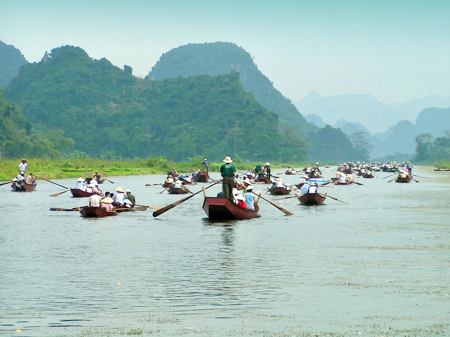 Perfume Pagoda, Hanoi, Vietnam. Pilgrimage on Yen River.